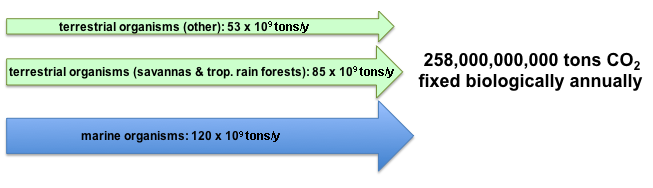 Graphic Showing Net CO2 fixation estimated for earth